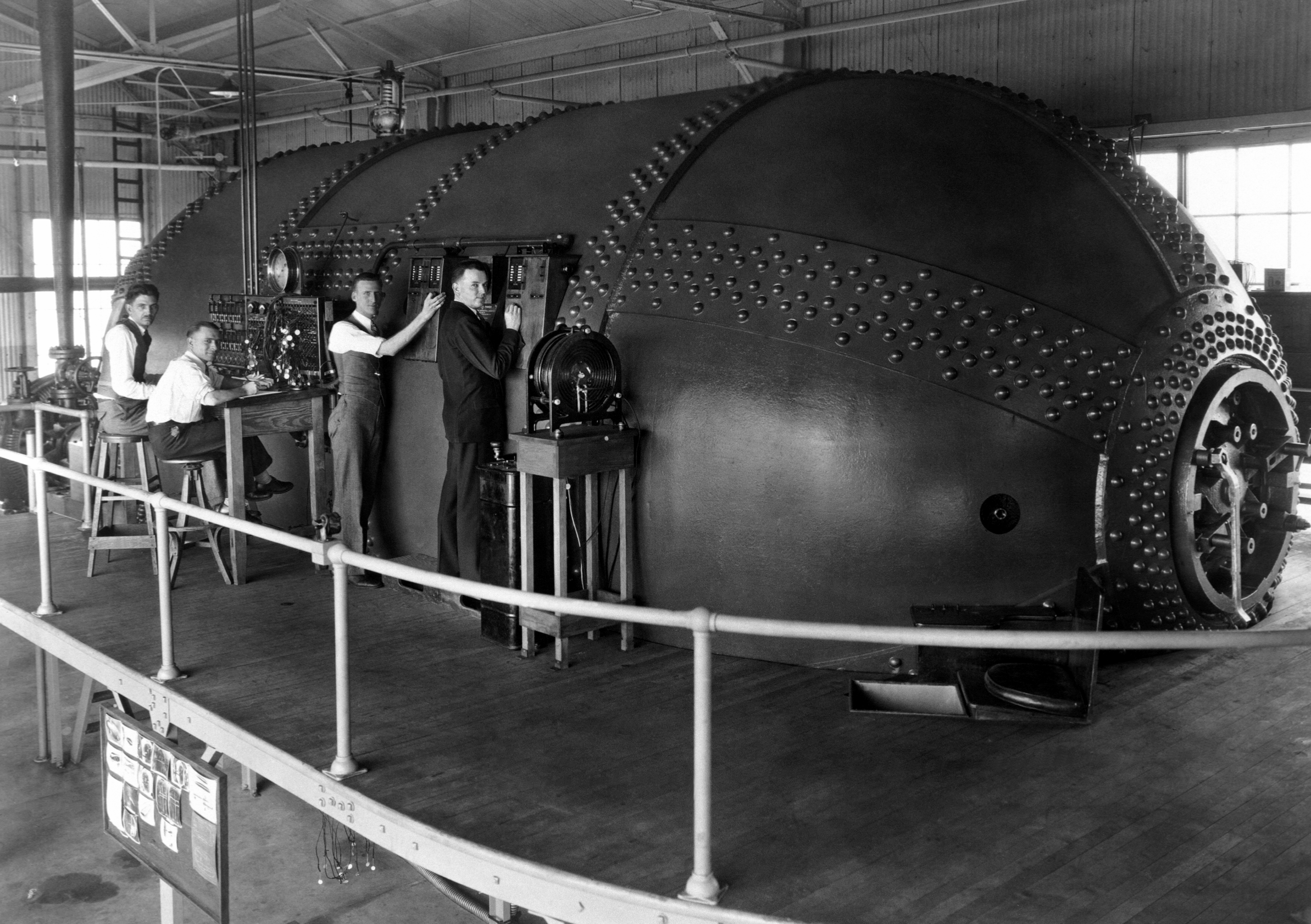 Left to right: Eastman Jacobs, Shorty Defoe, Malvern Powell, and Harold Turner. In this photo taken on March 15, 1929, a quartet of NACA staff conduct tests on airfoils in the Variable Density Tunnel, which was declared a National Historic Landmark in 1985. Eastman Jacobs is sitting (far left) at the control panel.